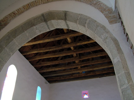 Church of Egyházasdengeleg, Hungary.